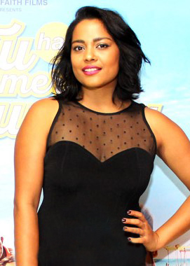 Shahana Goswami at the launch of ‘Tu Hai Mera Sunday’.